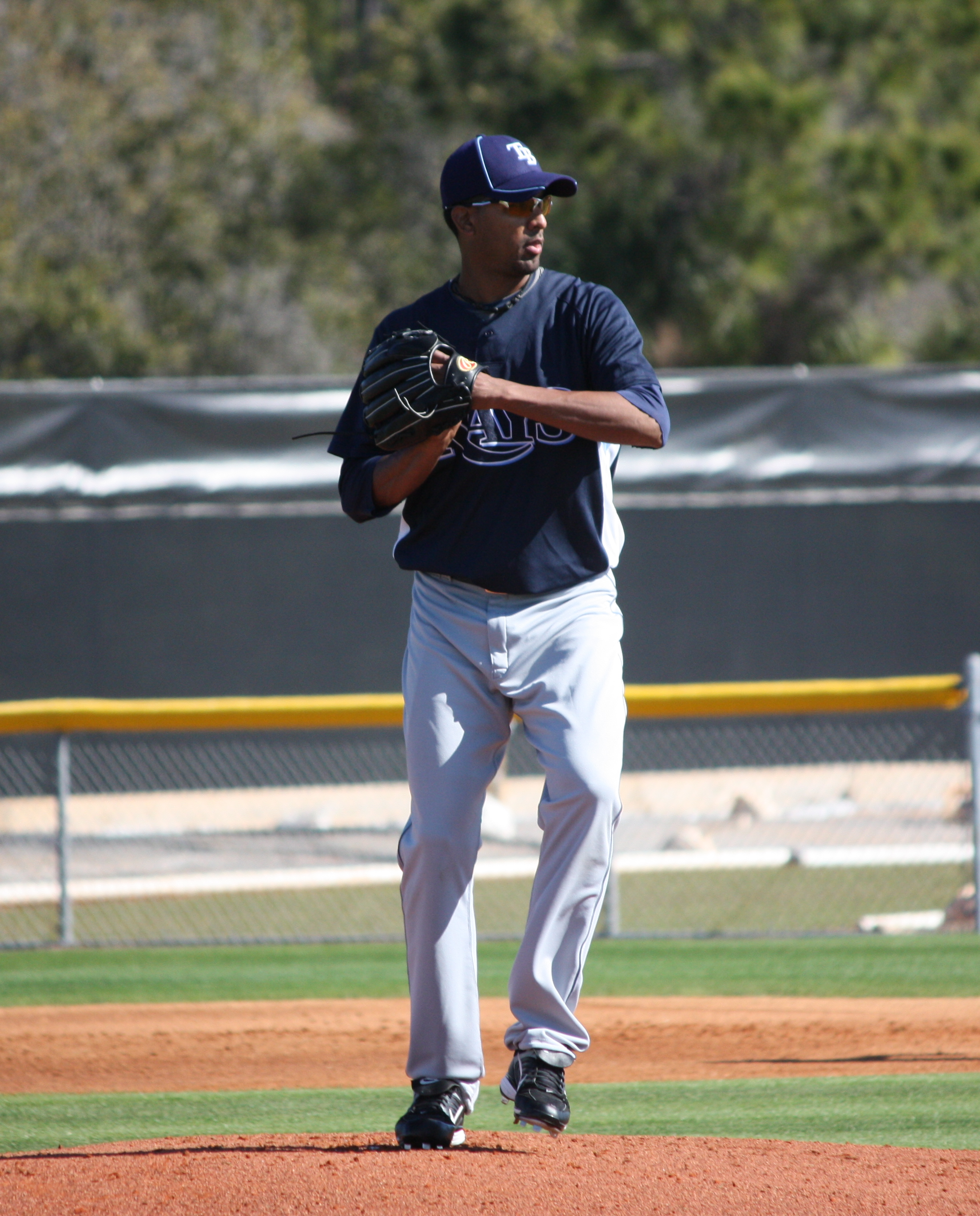 Winston Abreu of the Tampa Bay Rays doing first base drills during spring training workouts at Charlotte Sports Park in Port Charlotte on February 21, 2010.